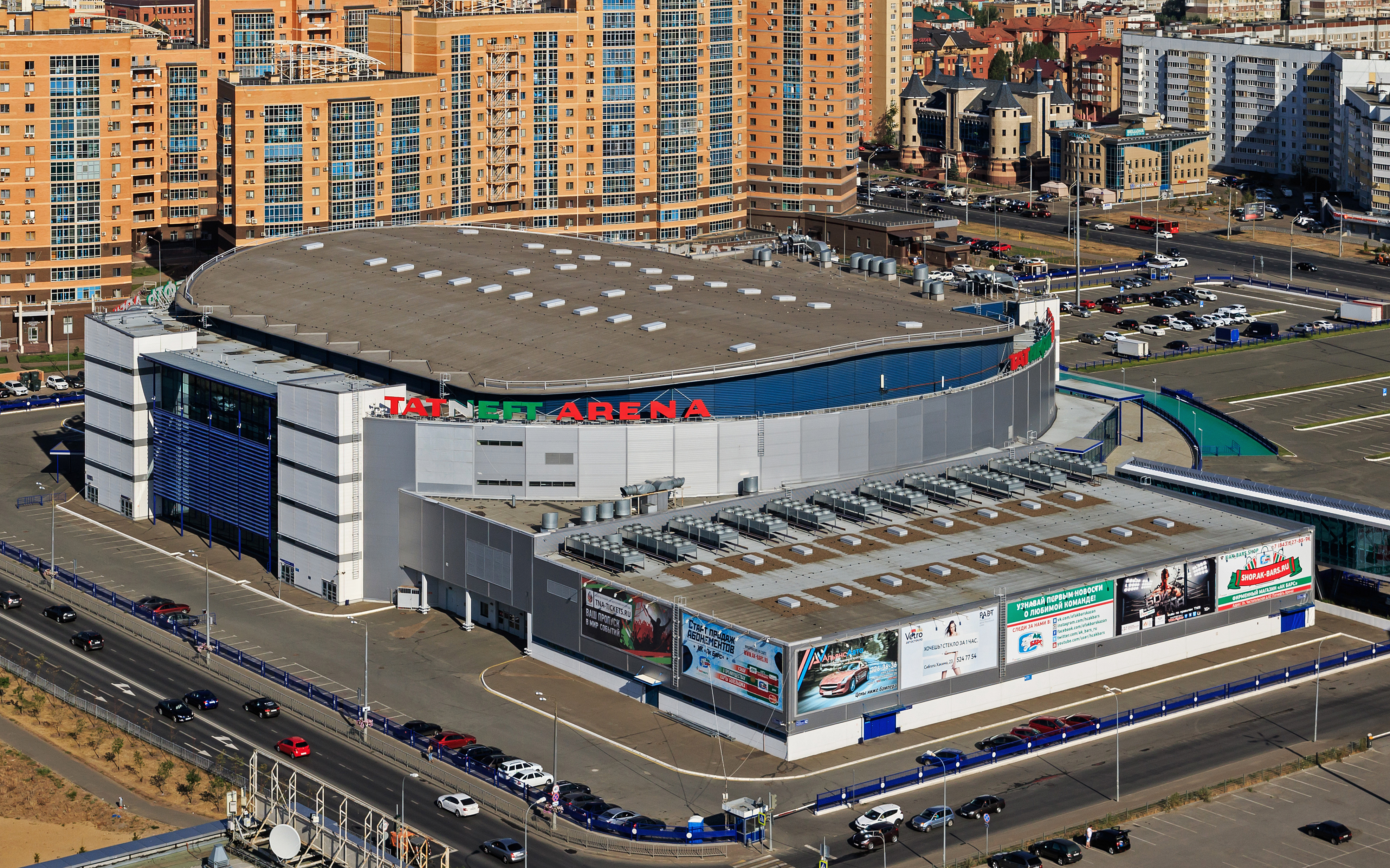 View of TatNeft Arena from the viewpoint of Riviera Hotel in Kazan, Russia